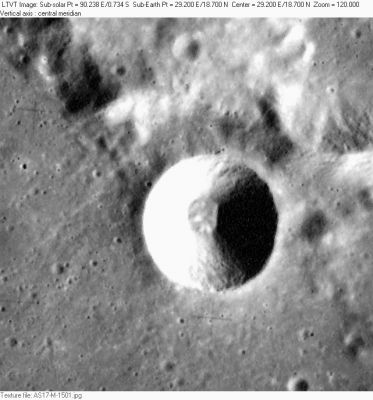 AS17-M-1501 Fabbroni is at the southwestern foot of Mons Argaeus, a portion of which is visible here.